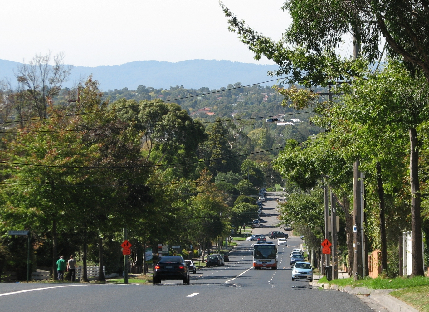 Riversdale Road looking east, Box Hill South, Victoria, Australia